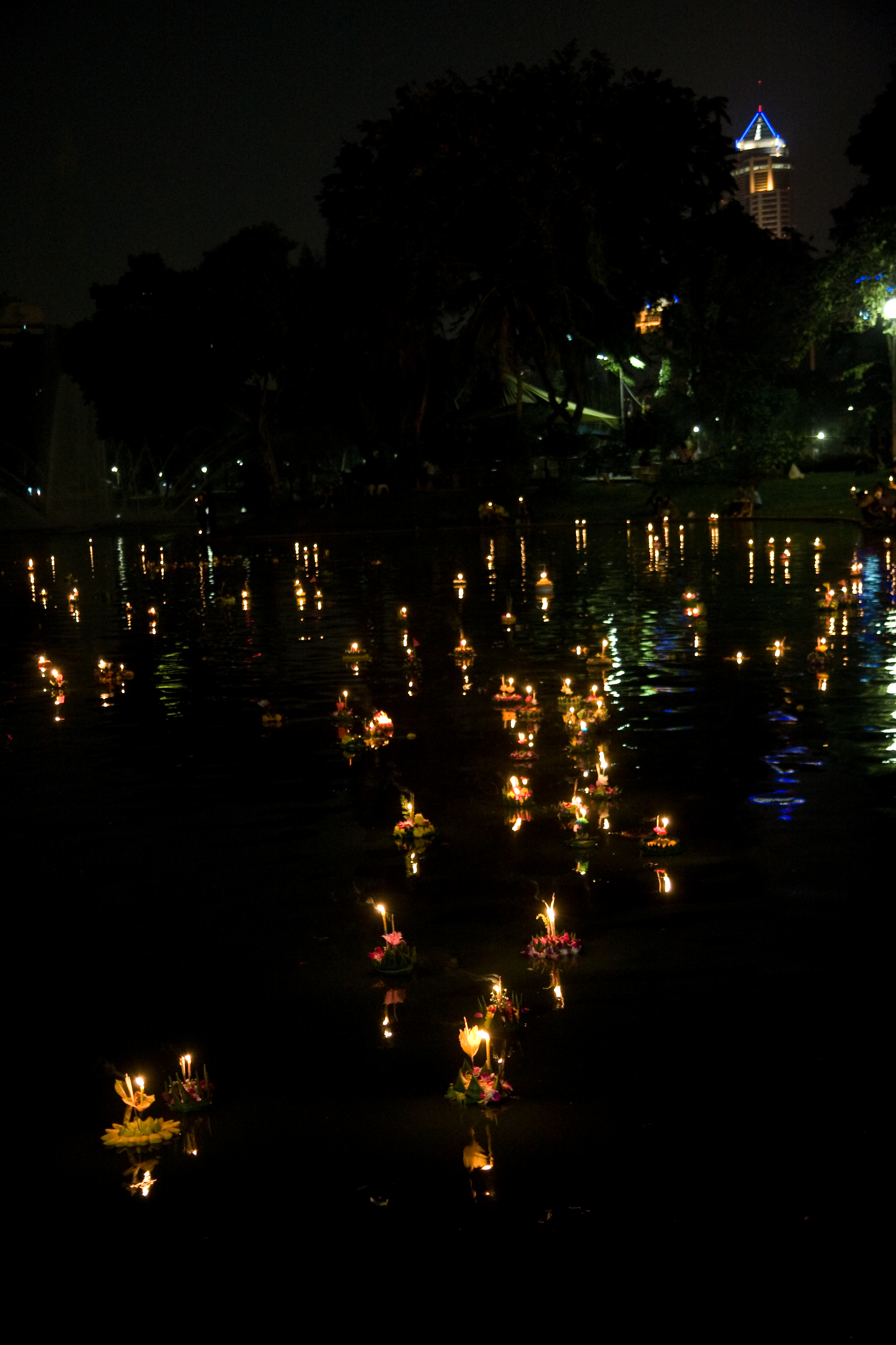 Celebrating Loy Krathong in Lumpini Park, Bangkok, Thailand